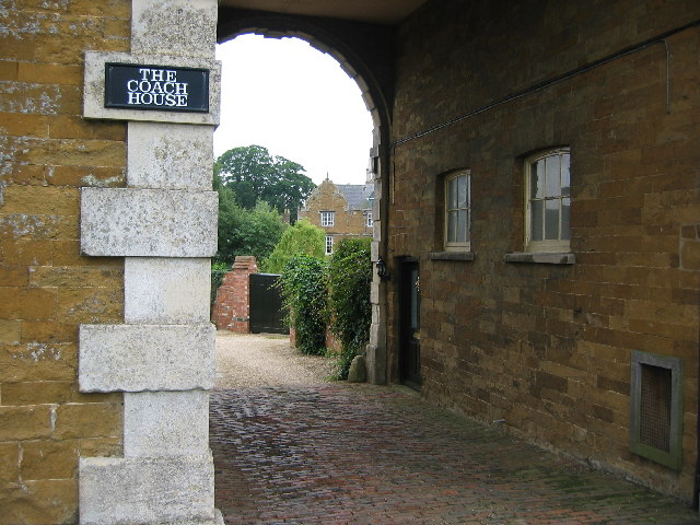 Eastwell Hall. A glimpse of Eastwell Hall through the coach arch in the centre of the village